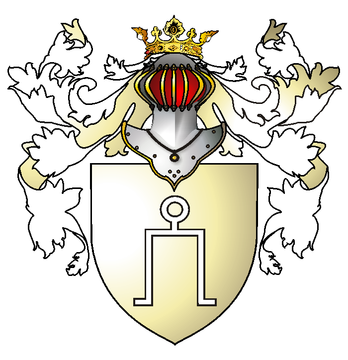 polish (Lipka Tatars Family) Coat of Arms Abrahimowicz